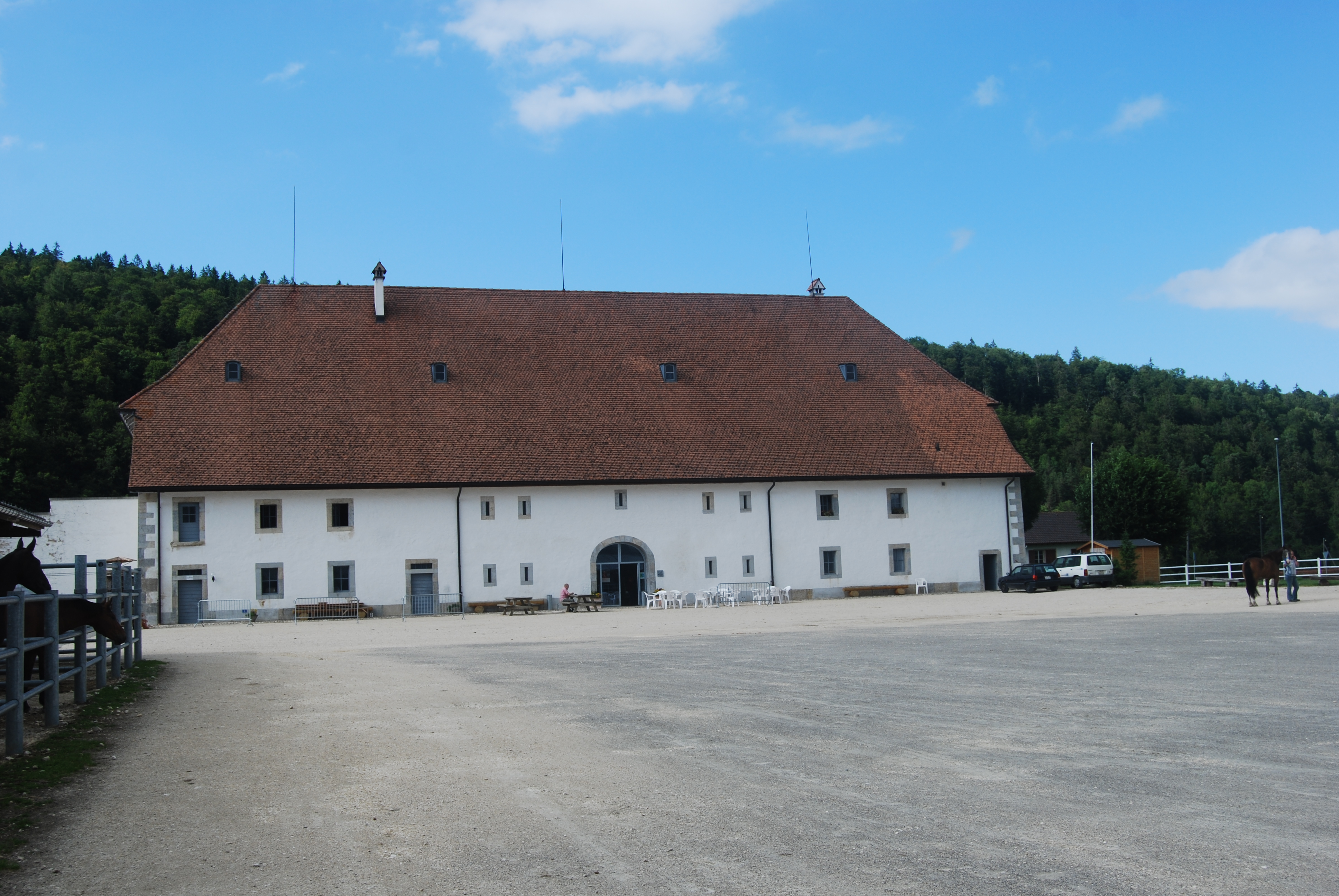 Tête de Moine Museum at Bellelay, municipality of Saicourt, canton of Bern, SwitzerlandEsperanto: Tête-de-Moine-Muzeo en Bellelay, komunumo Saicourt, Kantono Berno, Svislando